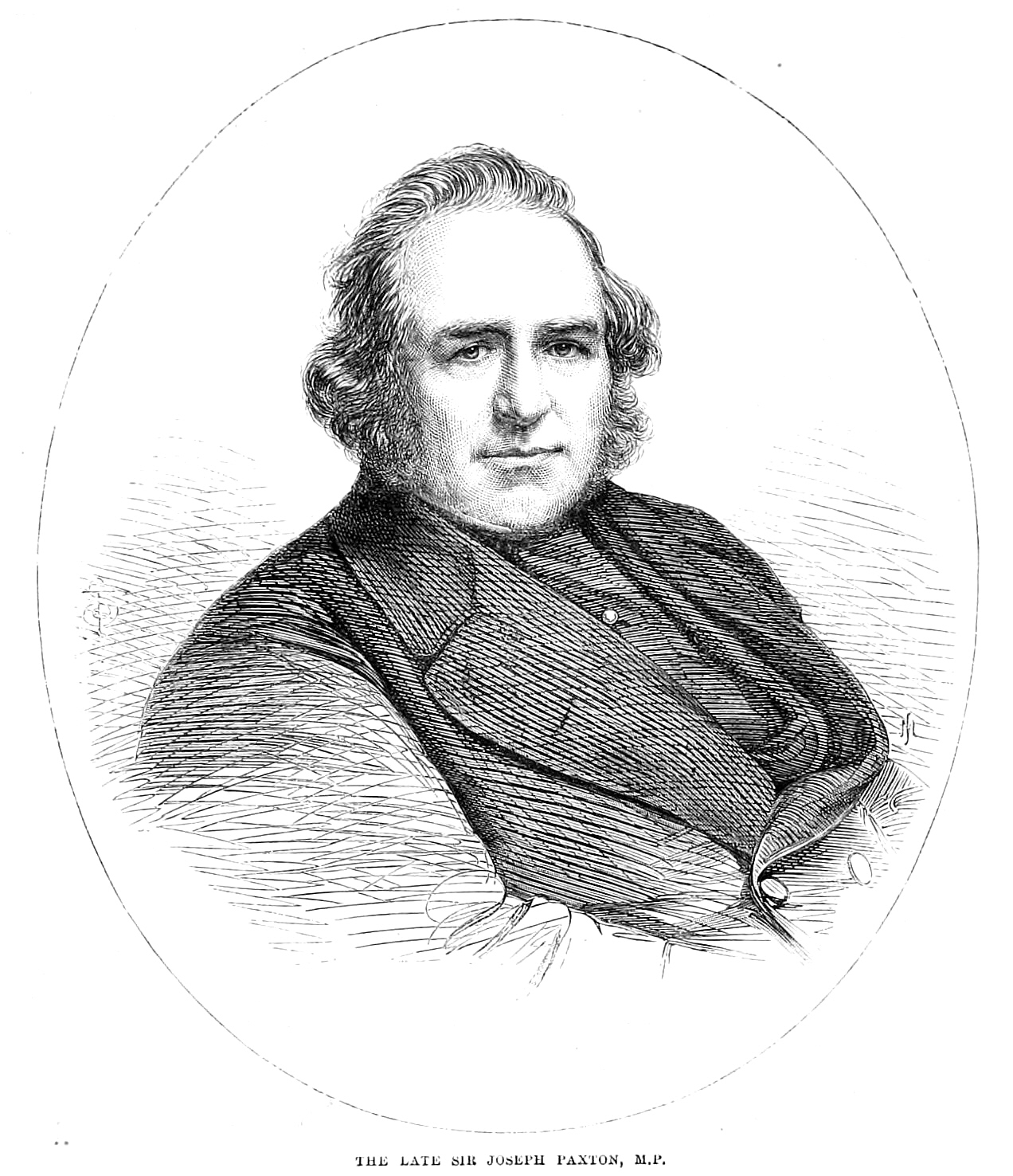 Joseph Paxton